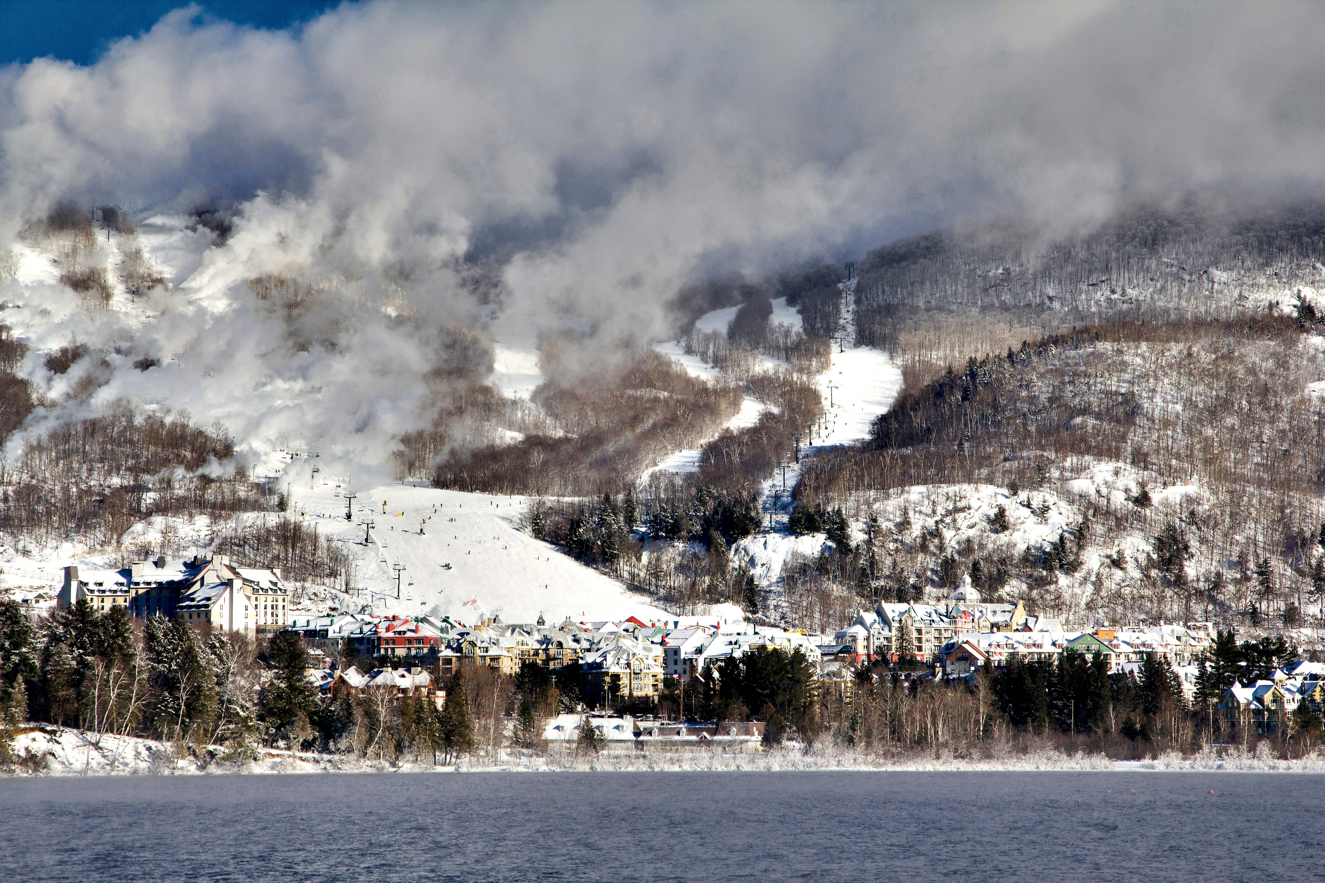 Hills in Mont Tremblant in Quebec